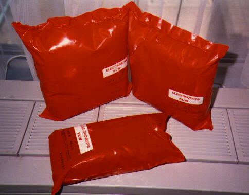 Firestop pillows consisting of 3lbs/ft³ rockwool layers, intumescent resin sprayed in between, inside a 4 mil plastic bag.